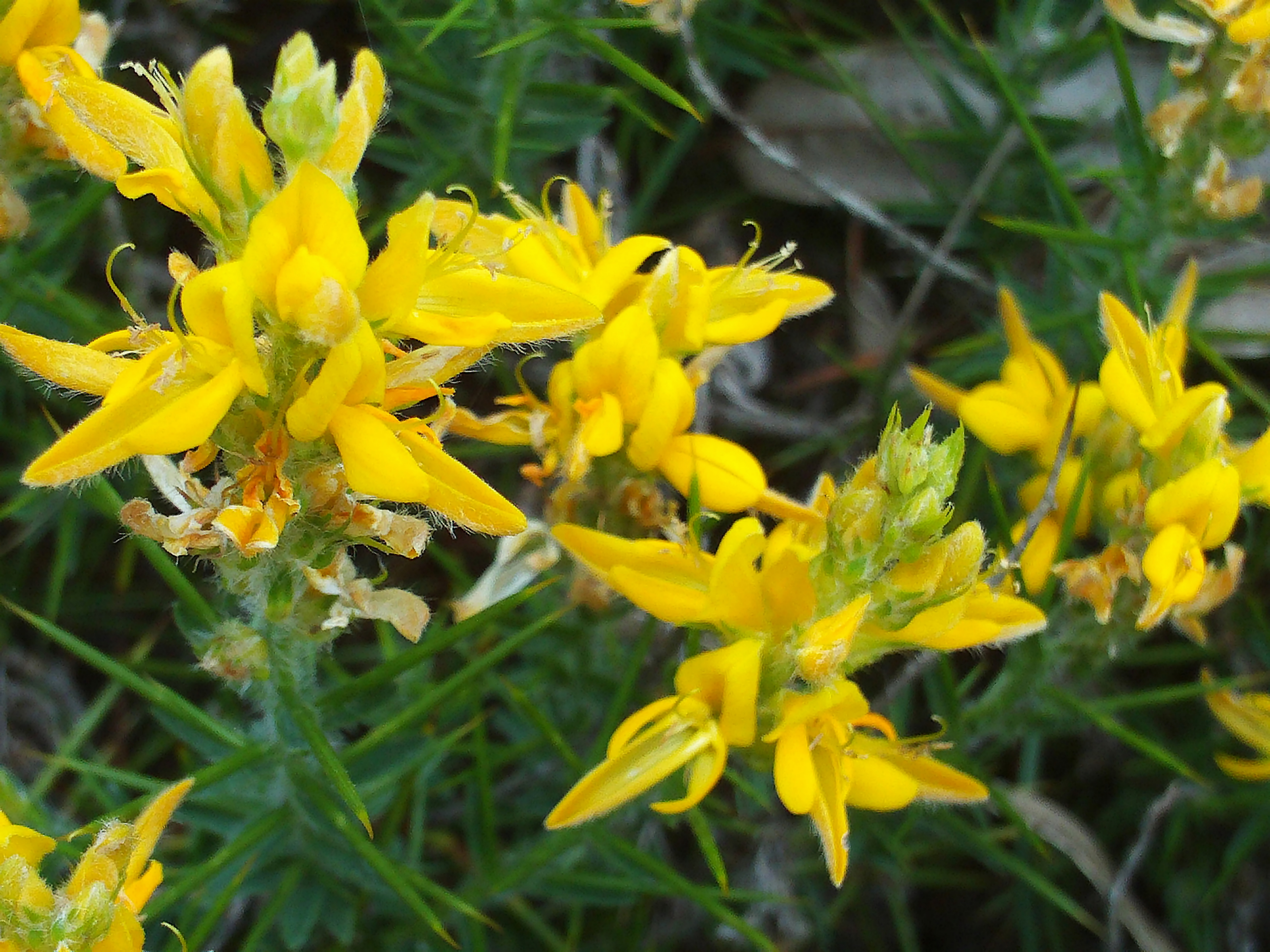 Genista hirsuta Flowers close up Dehesa Boyal de Puertollano, Spain